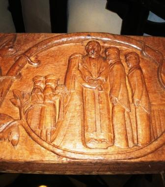 Holy Matrimony sacrament- part of carving on Alan Durst's Rood Screen at Woodchurch